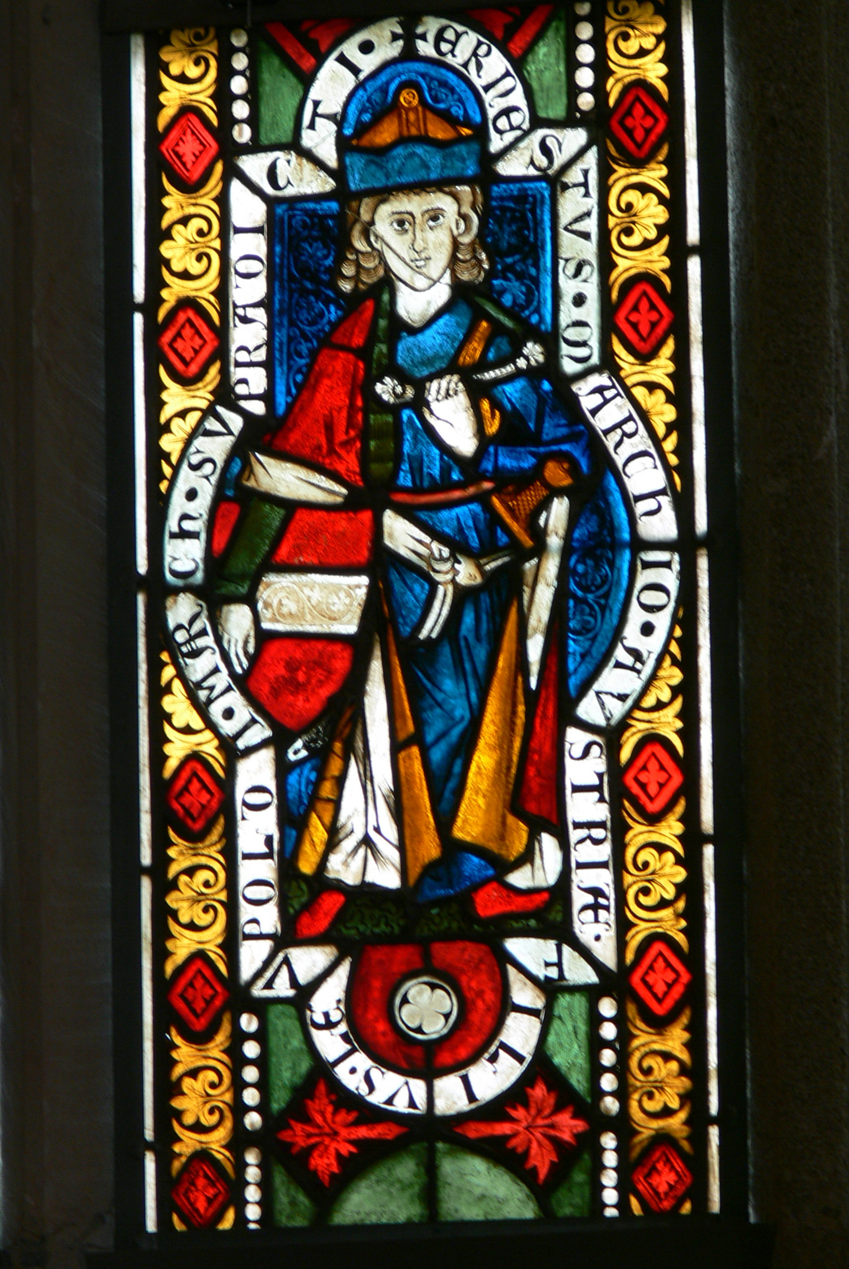 Heiligenkreuz abbey ( Lower Austria ). Lavabo: Babenberg windows ( 1290s ), showing members of the house of Babenberg: Ernest, margrave of Austria.